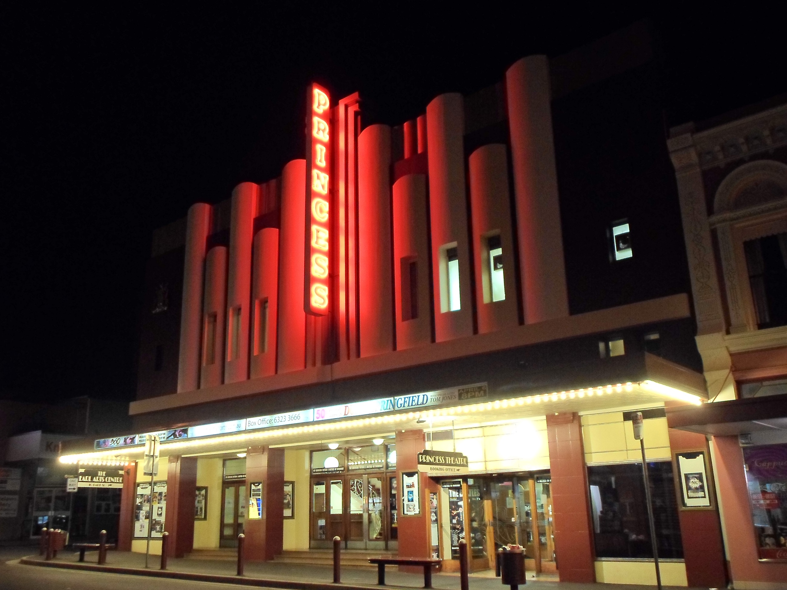 Night shot of Launceston's Princess Theatre on Brisbane Street